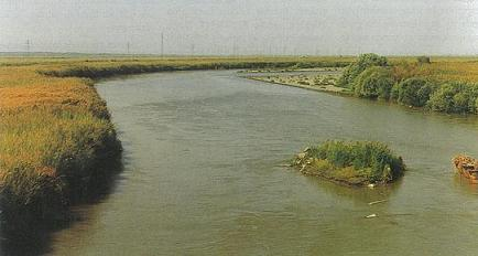 Aras River from Igdir